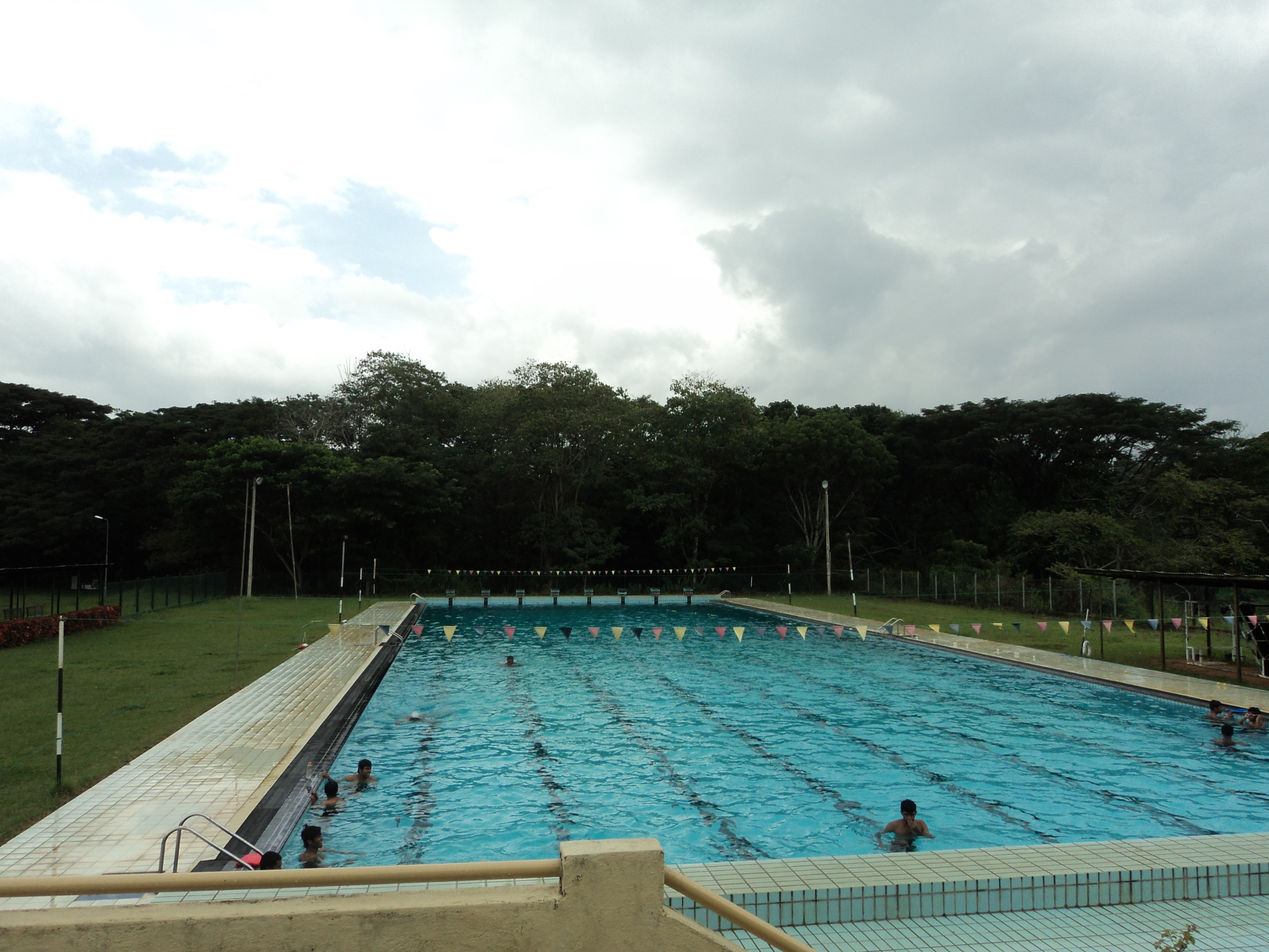 The 18ft deep sawimming pool of University of Peradeniya, Sri Lanka